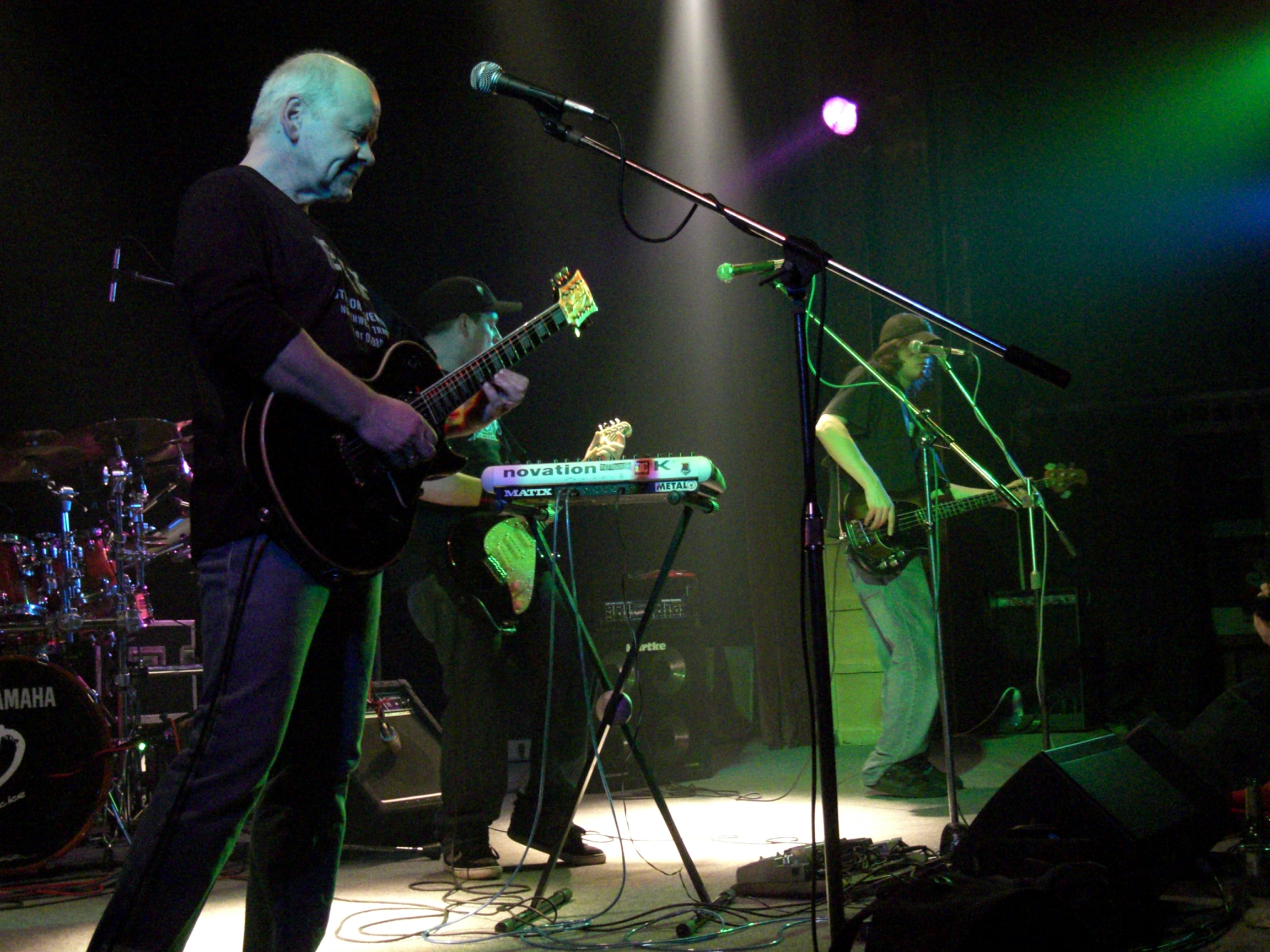 Czech big beat music grup Blue Effect in rock club Divadlo pod Čarou, Písek, 17.2.2007